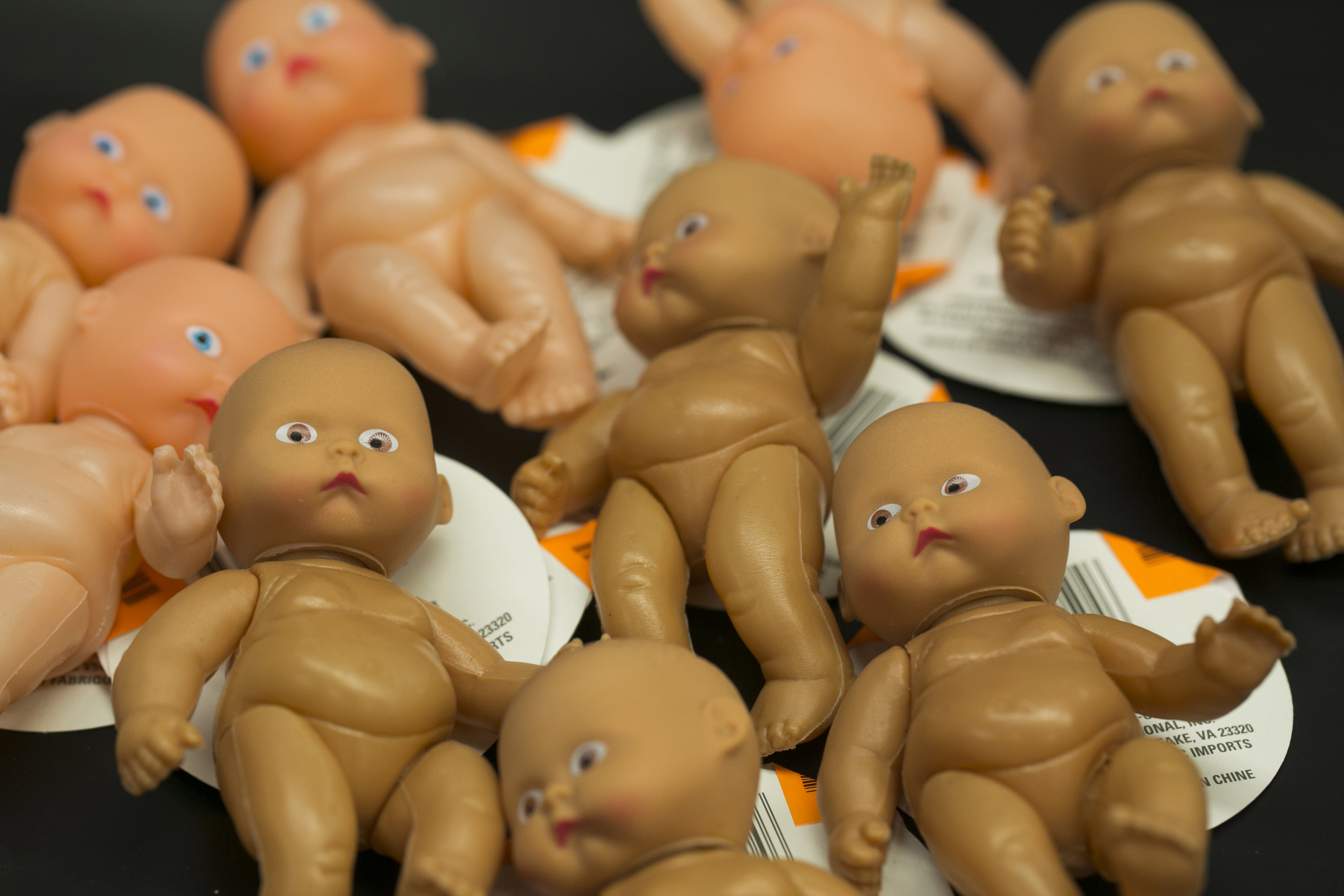 U.S. Customs and Border Protection (CBP) Officers and Consumer Product Safety Commission (CPSC) investigators have seized more than 200,000 toy dolls arriving from China due to the high levels of phthalates, a group of banned chemicals compounds. A total of 10 shipments valued at nearly $500,00.00 USD were seized at the ports of Chicago, Dallas, Los Angles, Norfolk, Memphis, Newark, Portland and Savannah. photo by James Tourtellotte.